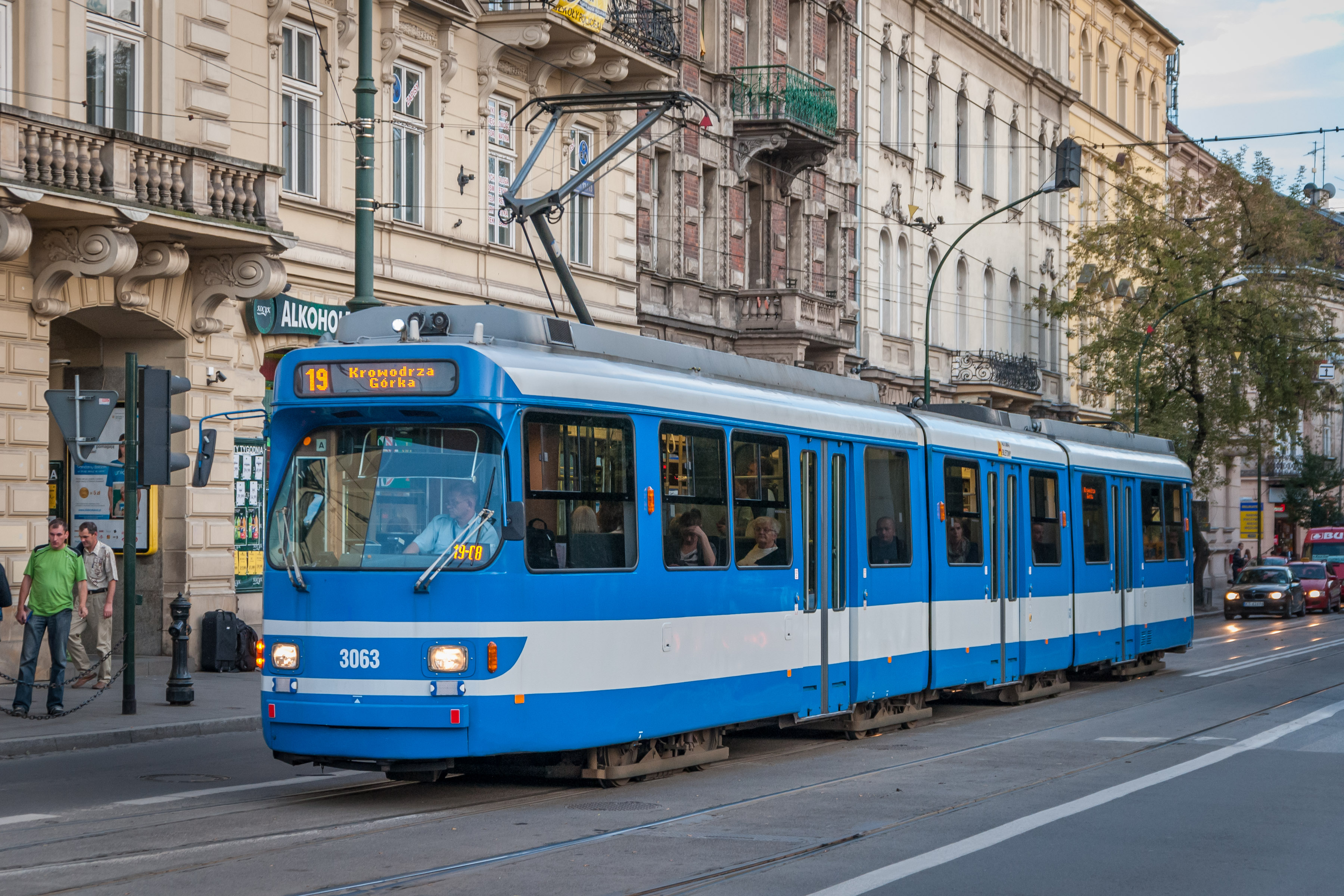 Düwag GT8S 3063, tram line 19, Kraków, 2012